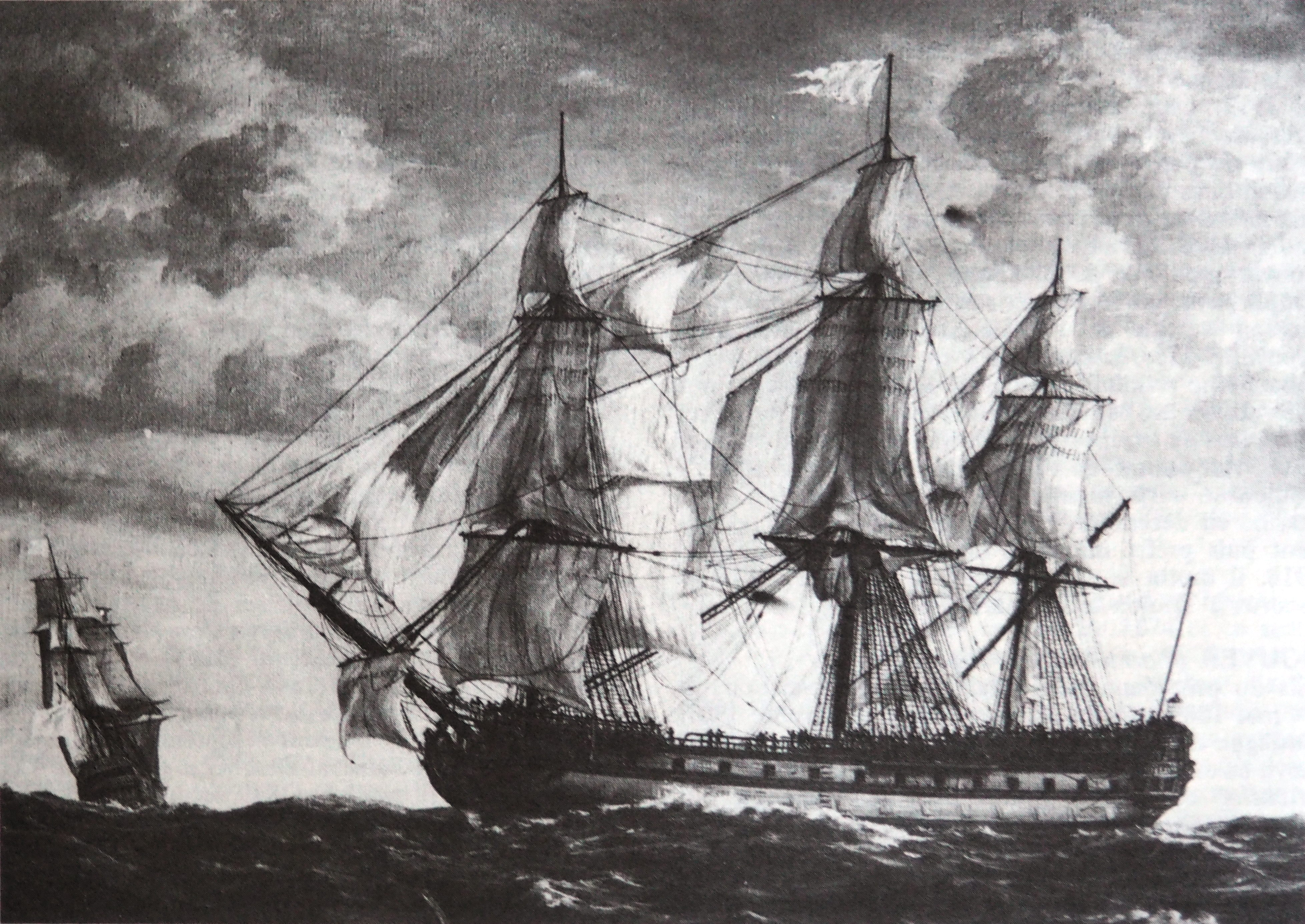 18th-century or early 19th-century engraving of the 74-gun Héros, Suffren's flagship.